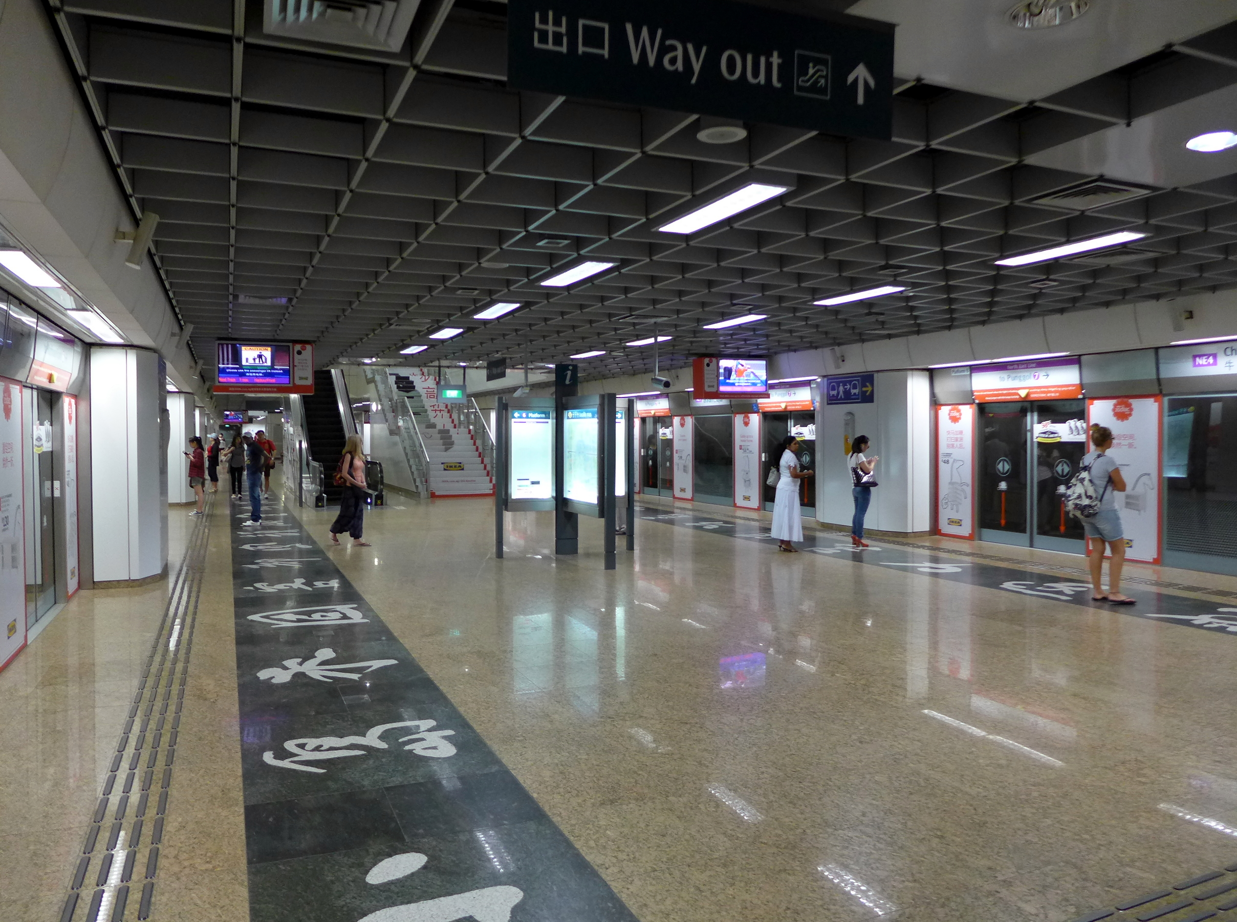 Chinatown MRT Station Platform